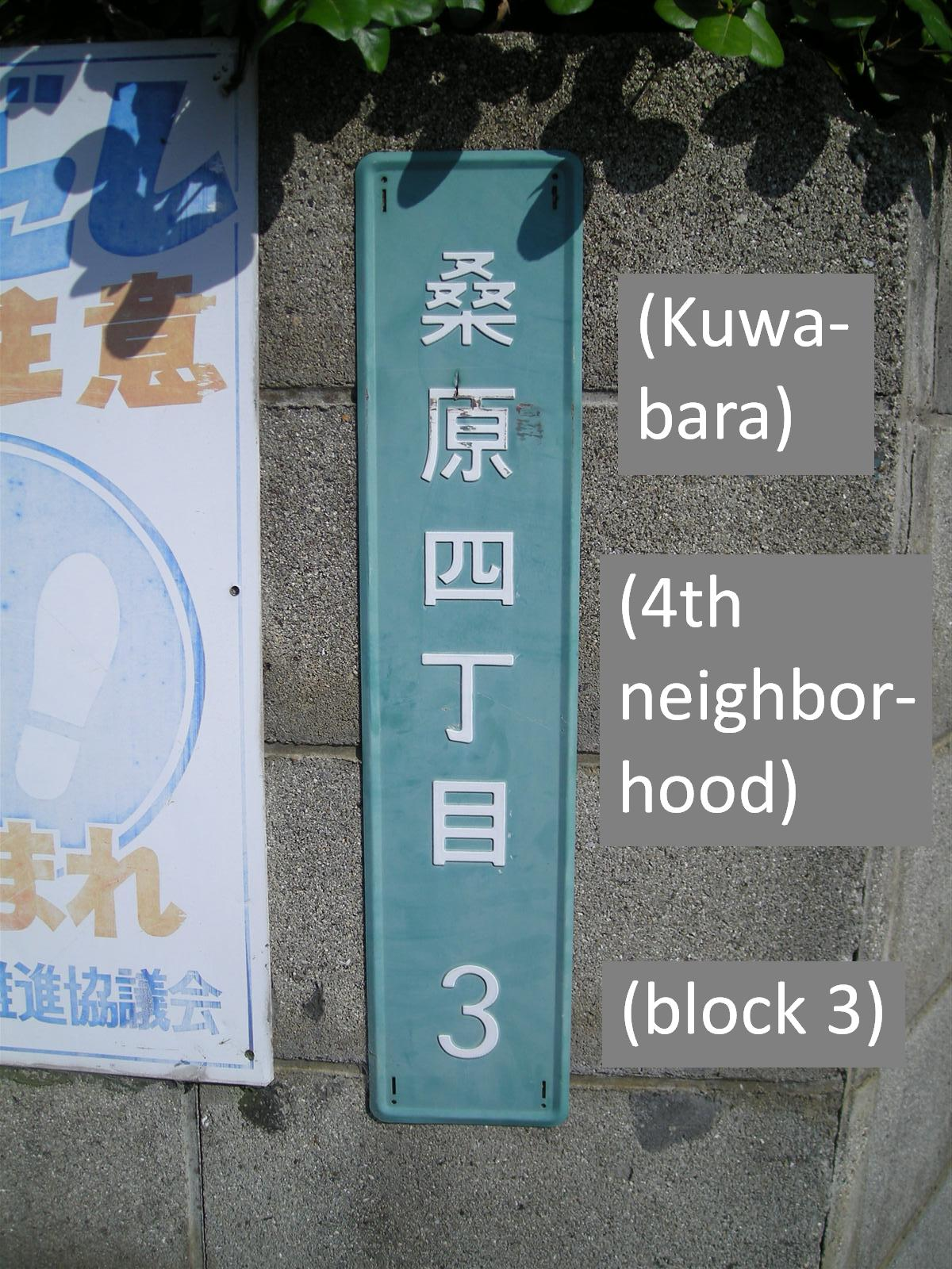 Japanese address system nameplate in the Kuwabara 4 cho me section of Matsuyama, Ehime, Japan, with English description of the kanji added digitally. 愛媛県松山市桑原４丁目3